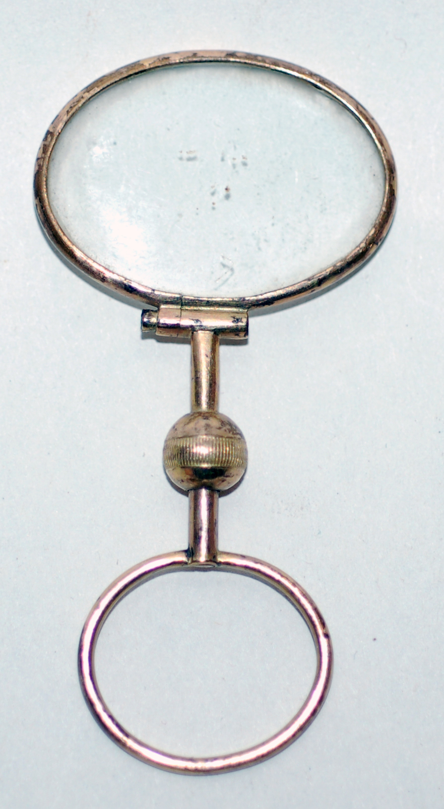 A 19th century gold plated quizzing glass with a ball swivel joint stem terminating in a ring loop.